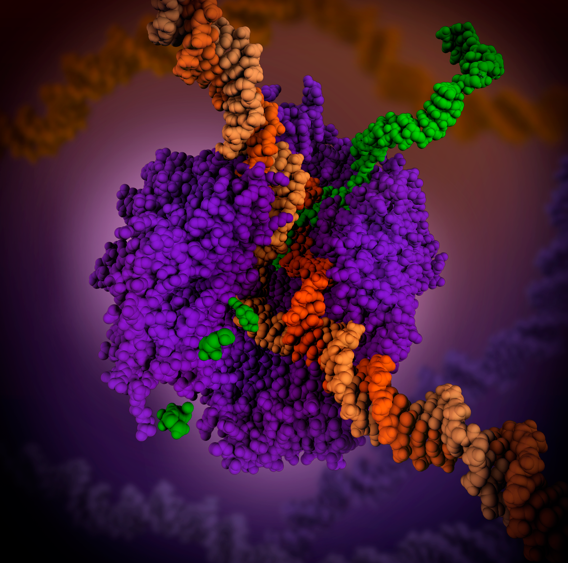 RNA polymerase (purple) is a complex enzyme at the heart of transcription. During this process, the enzyme unwinds the DNA double helix and uses one strand (darker orange) as a template to create the single-stranded messenger RNA (green), later used by ribosomes for protein synthesis. From the RNA polymerase II elongation complex of Saccharomyces cerevisiae (PDB Structure 1i6h) as seen in